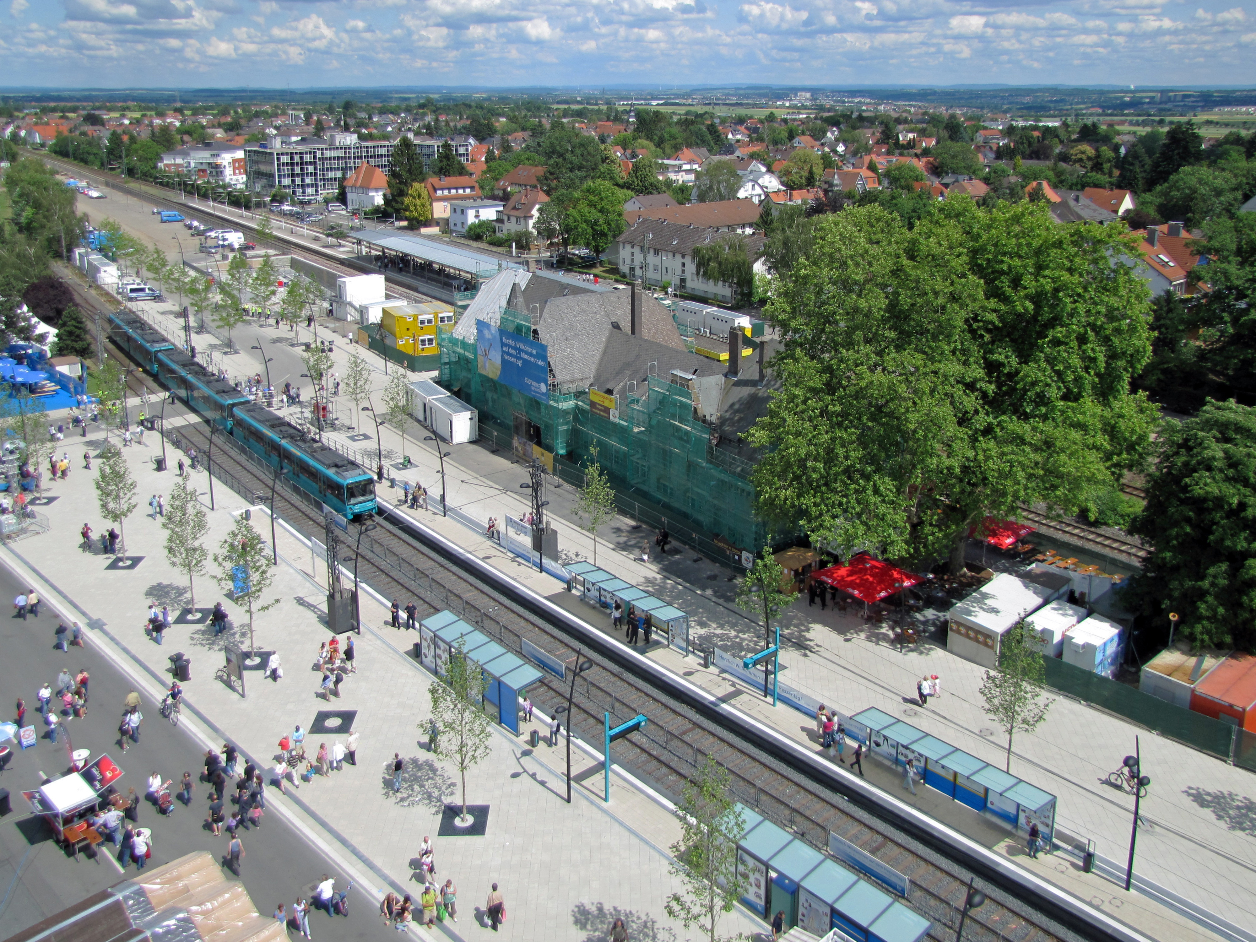 Oberursel, railway plus underground station, during the "Hessentag 2011" in Hesse, Germany.